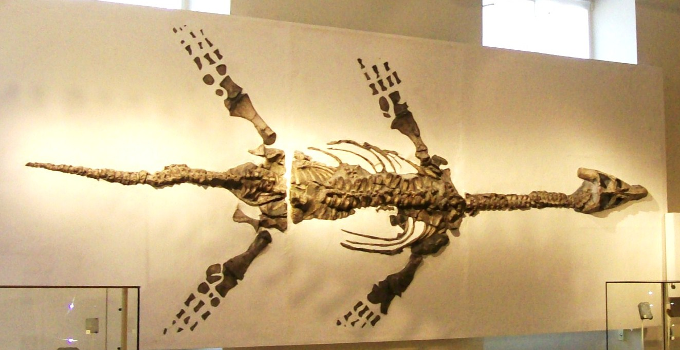 Atychodracon megacephalus (formerly Rhomaleosaurus, specimen LEICS G221.1851) skeleton, New Walk Museum, excavated at Barrow-upon-Soar, popularly known as the "Barrow Kipper"